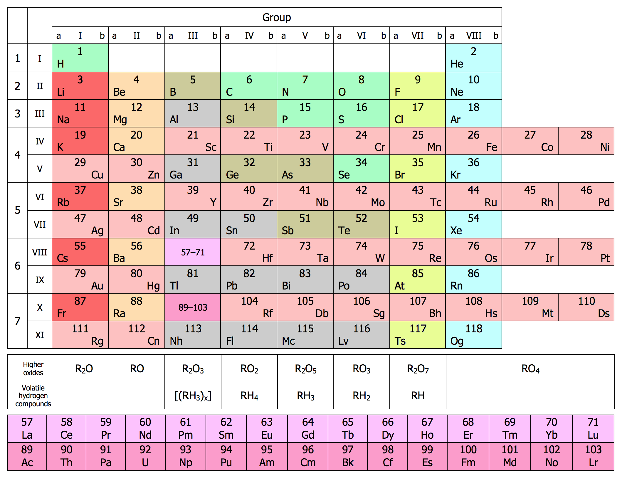 Short form periodic table, with oxide and hydride formulae